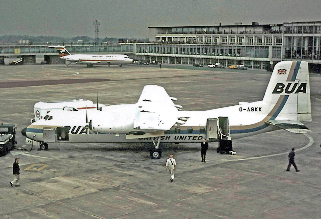 Handley Page Herald 211 G-ASKK at Manchester Airport operating a scheduled service from Southampton